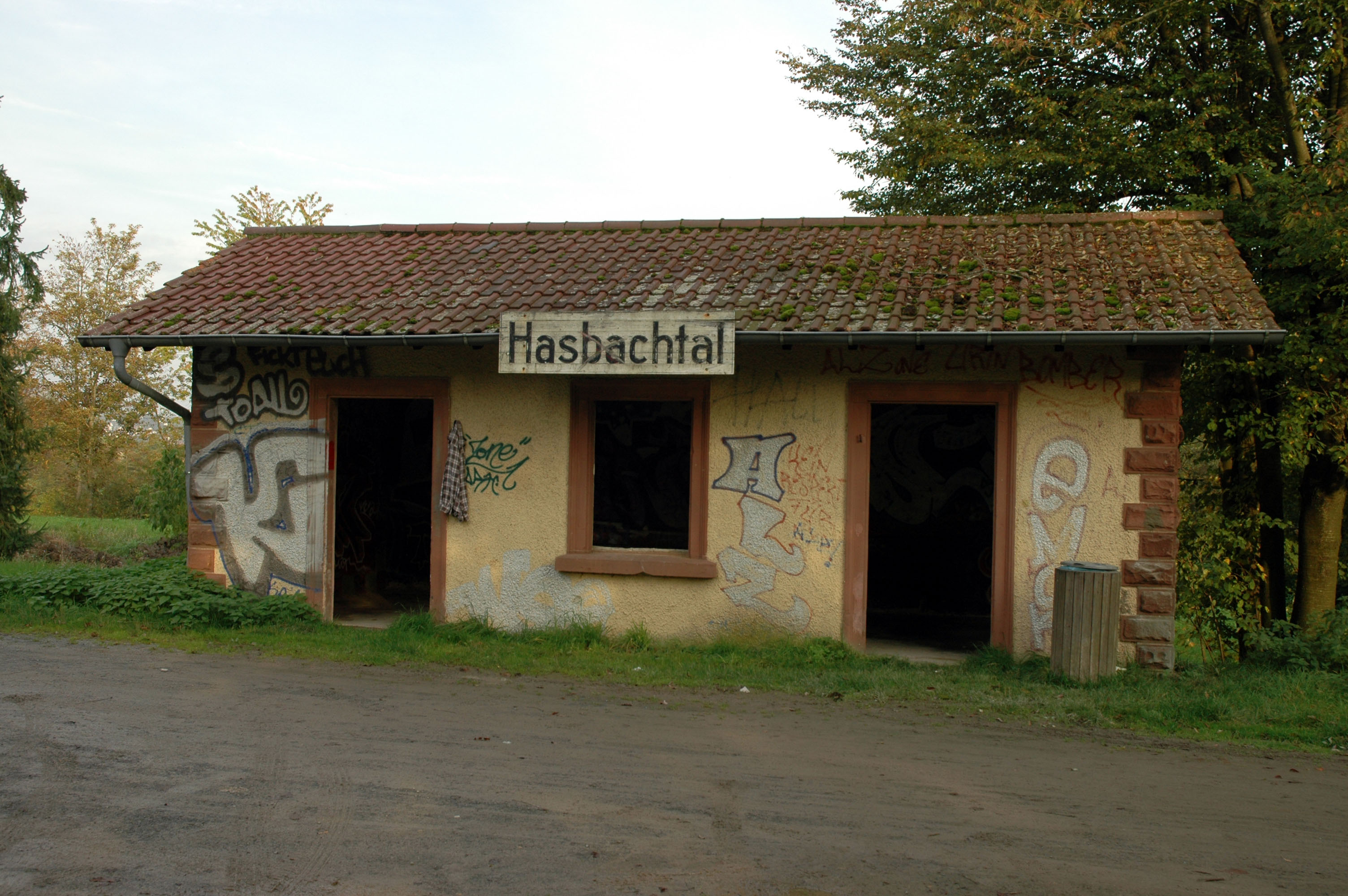 former station Hasbachtal of the "Odenwaldexpress".